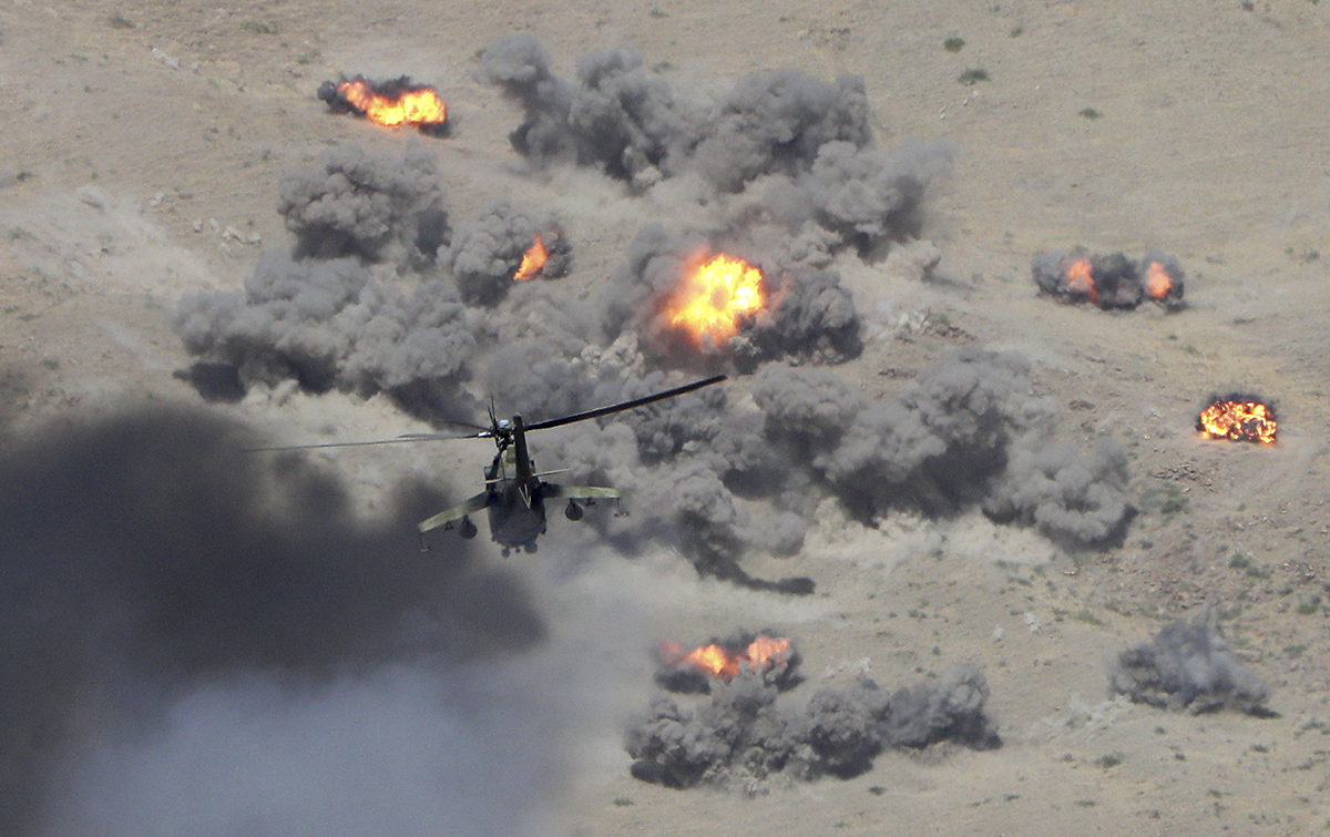 "Center 2019" exercise.